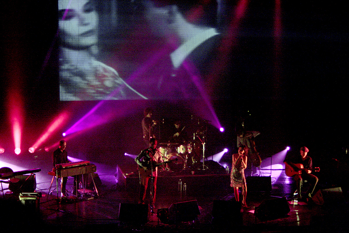 Nouvelle Vague Concert in the Grand Rex, Paris, France